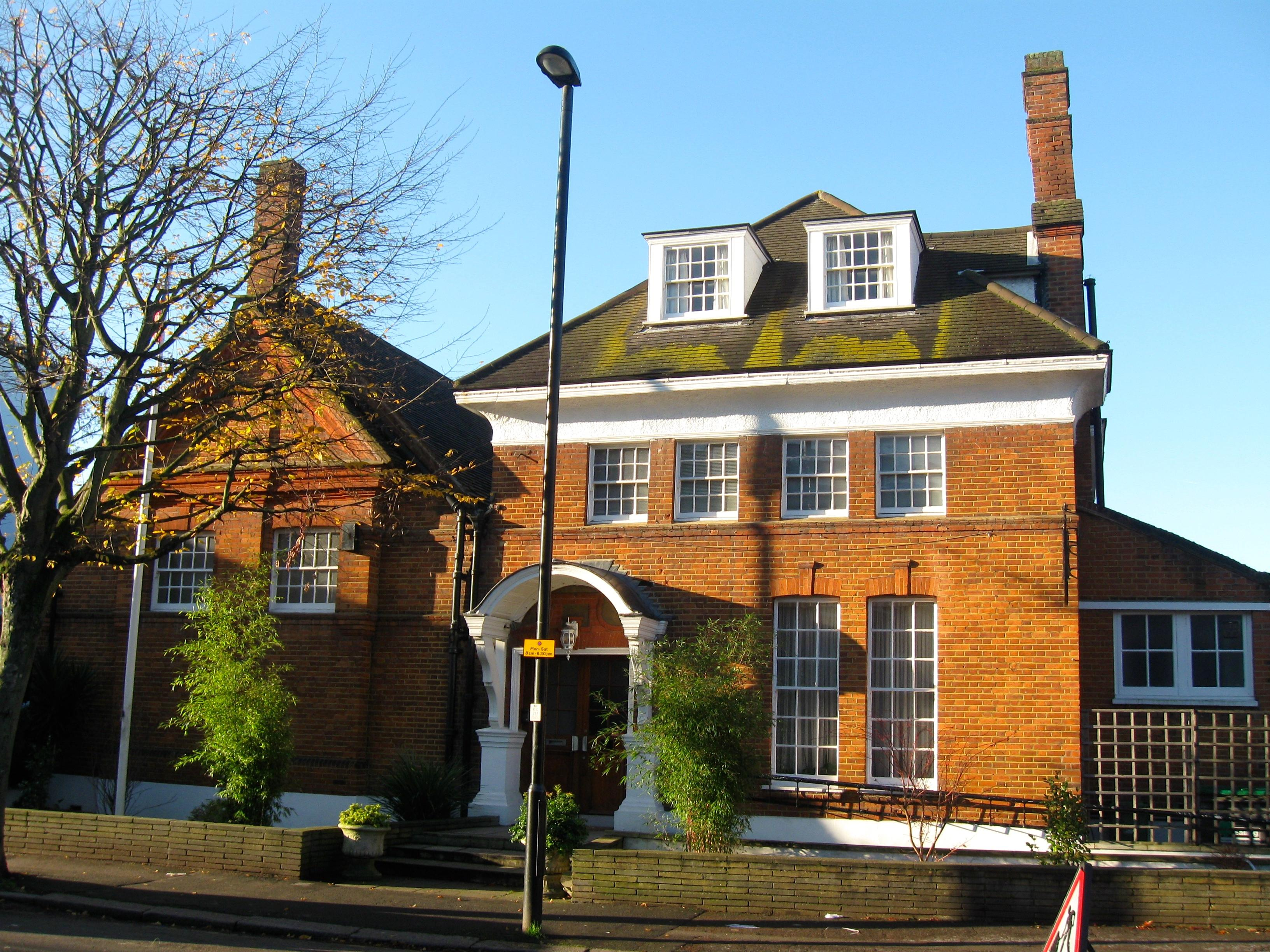 Photograph of London Buddhist Vihara, London, UK